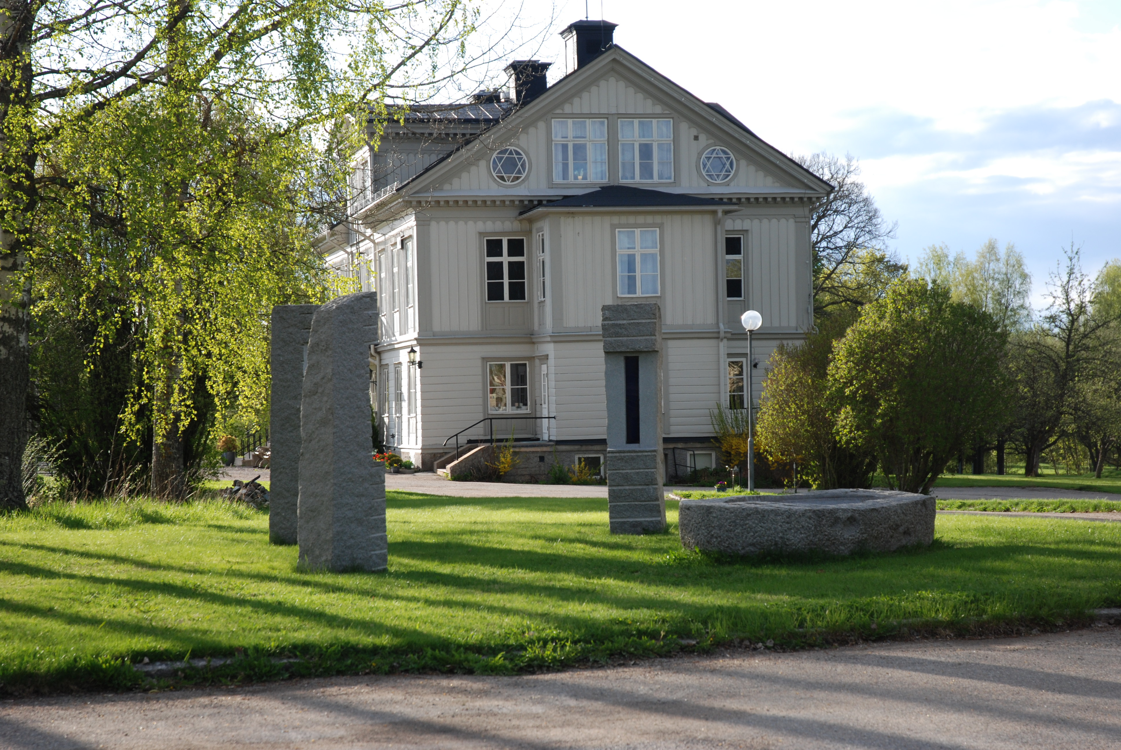 Åkerby Mansion and Sculpture Park, Nora, Sweden